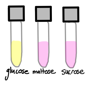 Diagram of test tubes showing carbohydrate utilization pattern of Neisseria gonorrhoeae - Neisseria gonorrhoeae oxidizes glucose, but not maltose, sucrose, or lactose.